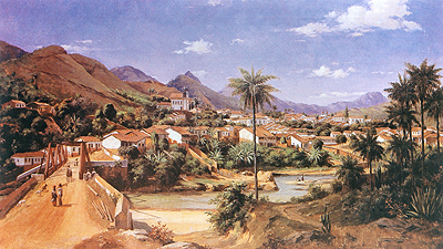 study for the curtain of the Sabará opera house